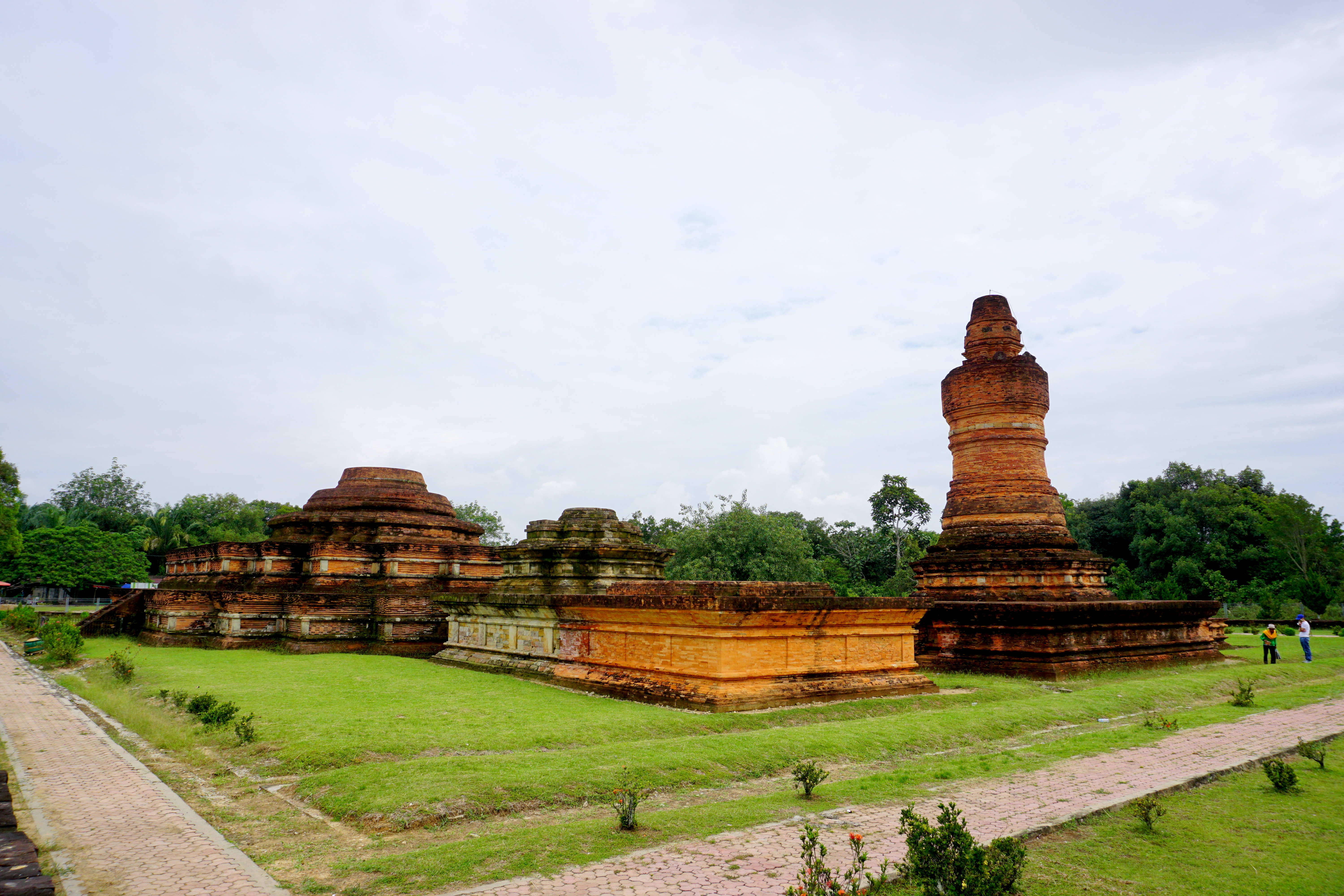 Site from South-West, Muara Takus, Sumatra